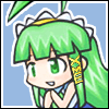 This pic was created by C-Chan and an Anonymous author. They have given me permission to upload this pic to Wikipedia under the GNU Licence. For